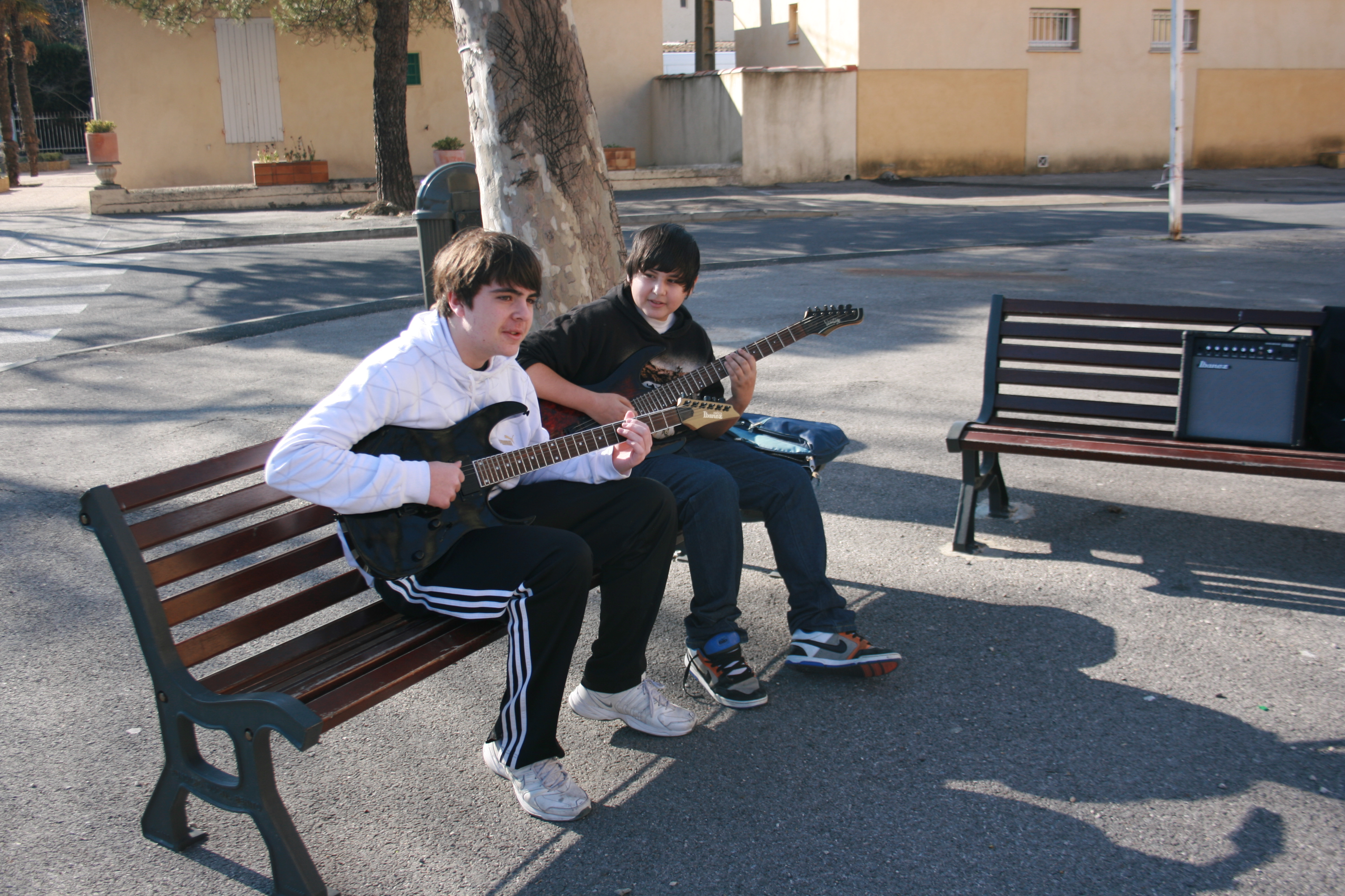 Teen's guitar training on the village place in winter, Salin de Giraud, Camargue, France. Tomorrow's Manitas de Platas?